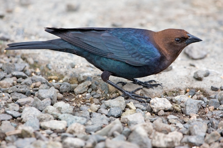 Brown-Headed Cowbird (Molothrus ater), Burnaby Lake Regional Park (Piper Spit), Burnaby, British Columbia